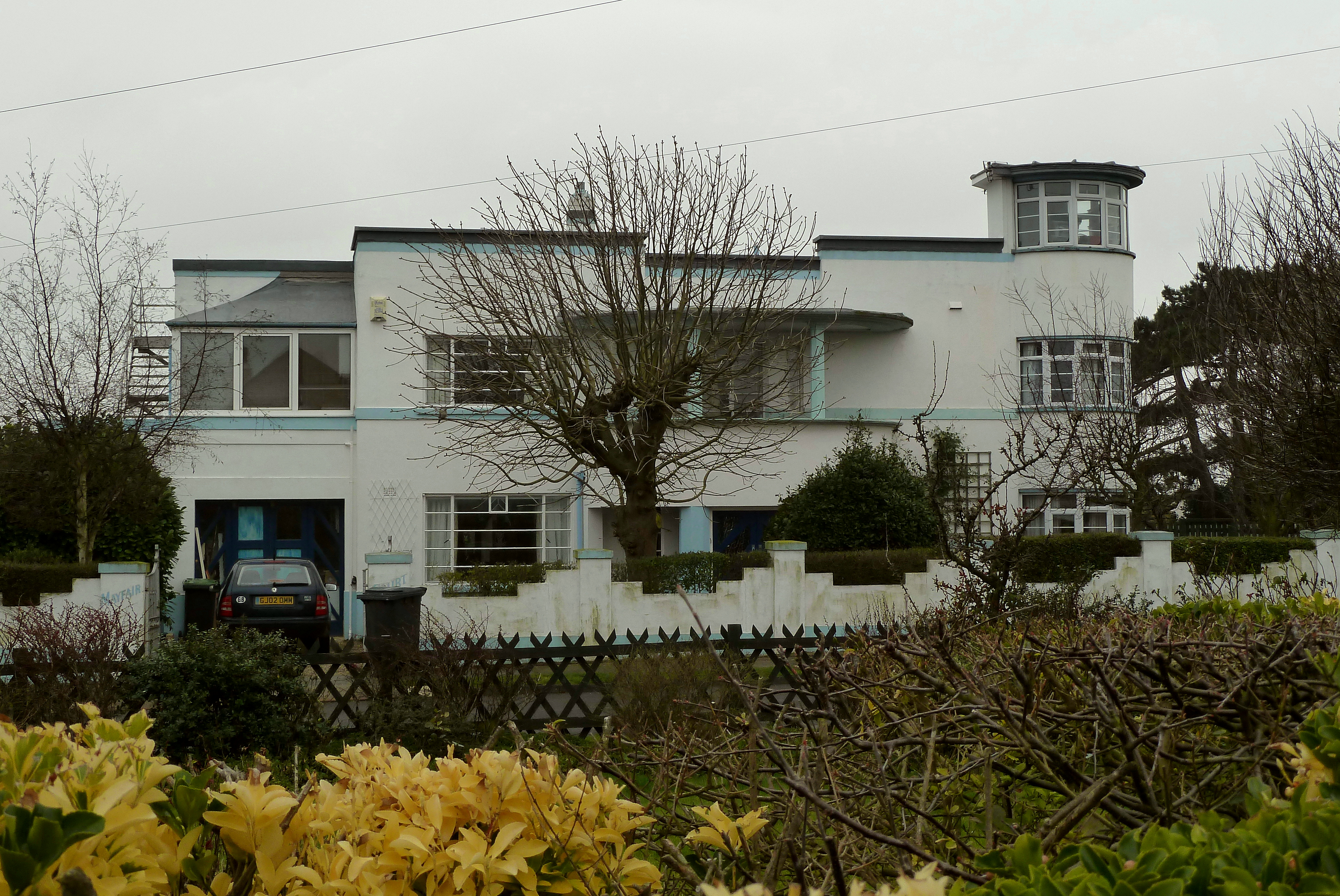 Mayfair Court, Clifftown Gardens, Herne Bay, Kent, England; built in 1934–35 for Lydia Cecilia Hill, a favourite of Ibrahim, Sultan of Johore. The architect is unknown, but extension work was carried out by John Howell and Son in her lifetime. This architect has not been traced. It was apparently not John Howell and Son of Hastings; the last partner of which company died in 1903.